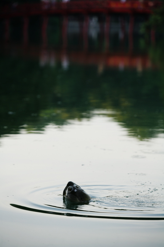 A turtle emerging from of the Hoan Kiem lake, Hanoi, Vietnam. Species: Rafetus leloii or Rafetus swinhoei